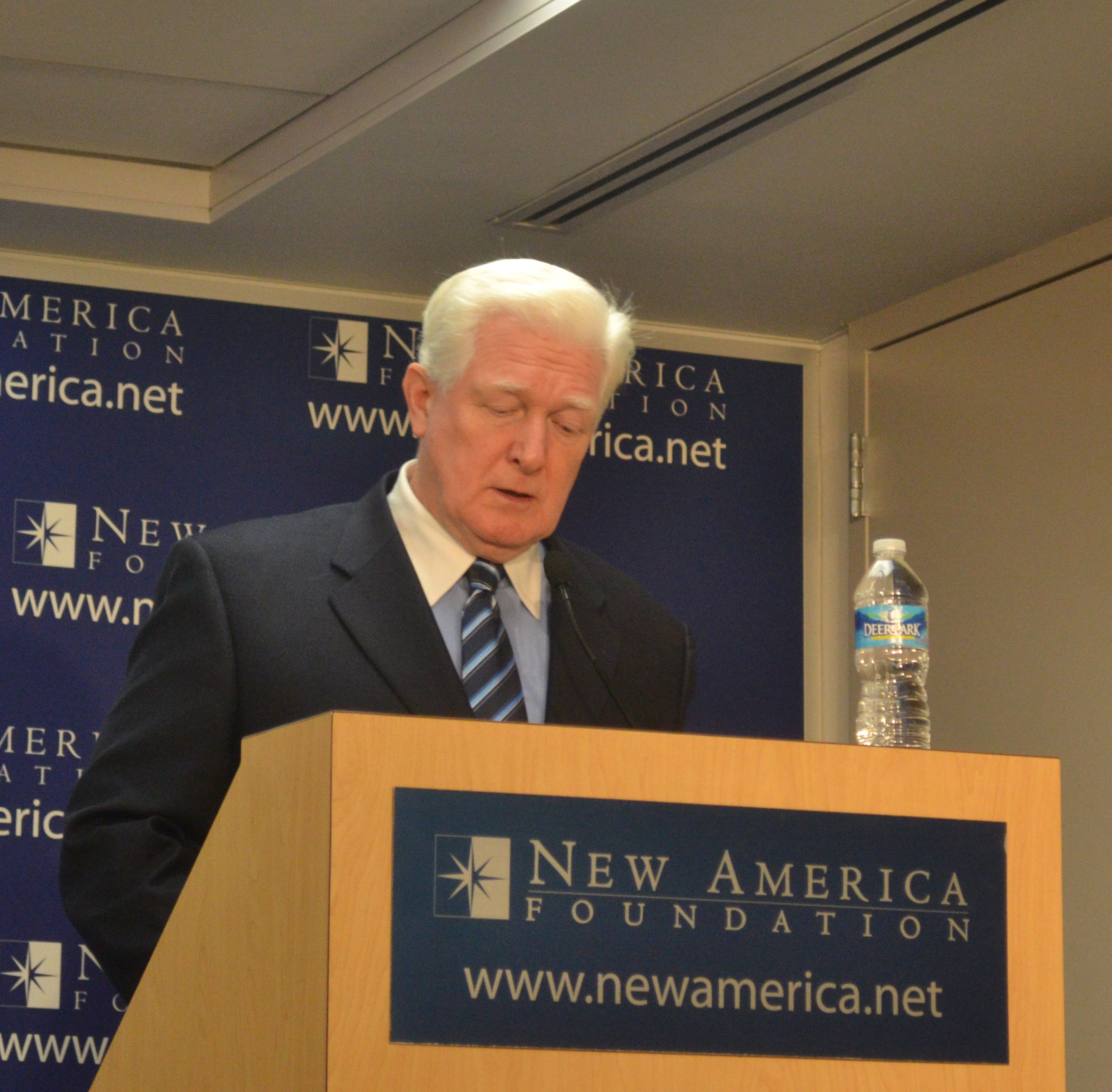 Congressman Jim Moran speaking at New America